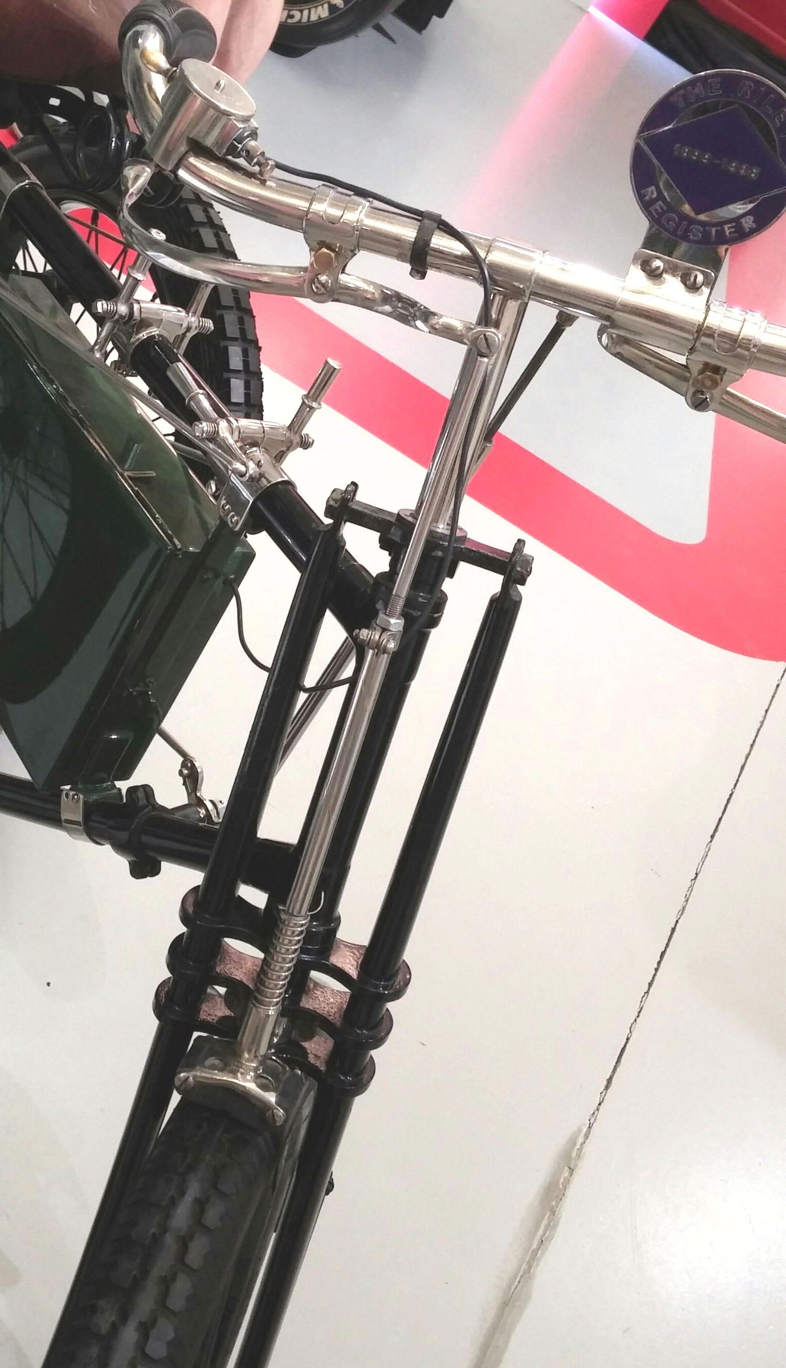 Close up of a spoon front brake on a 1899 Royal Riley Tricycle at the Motor Heritage Centre, Gaydon, England